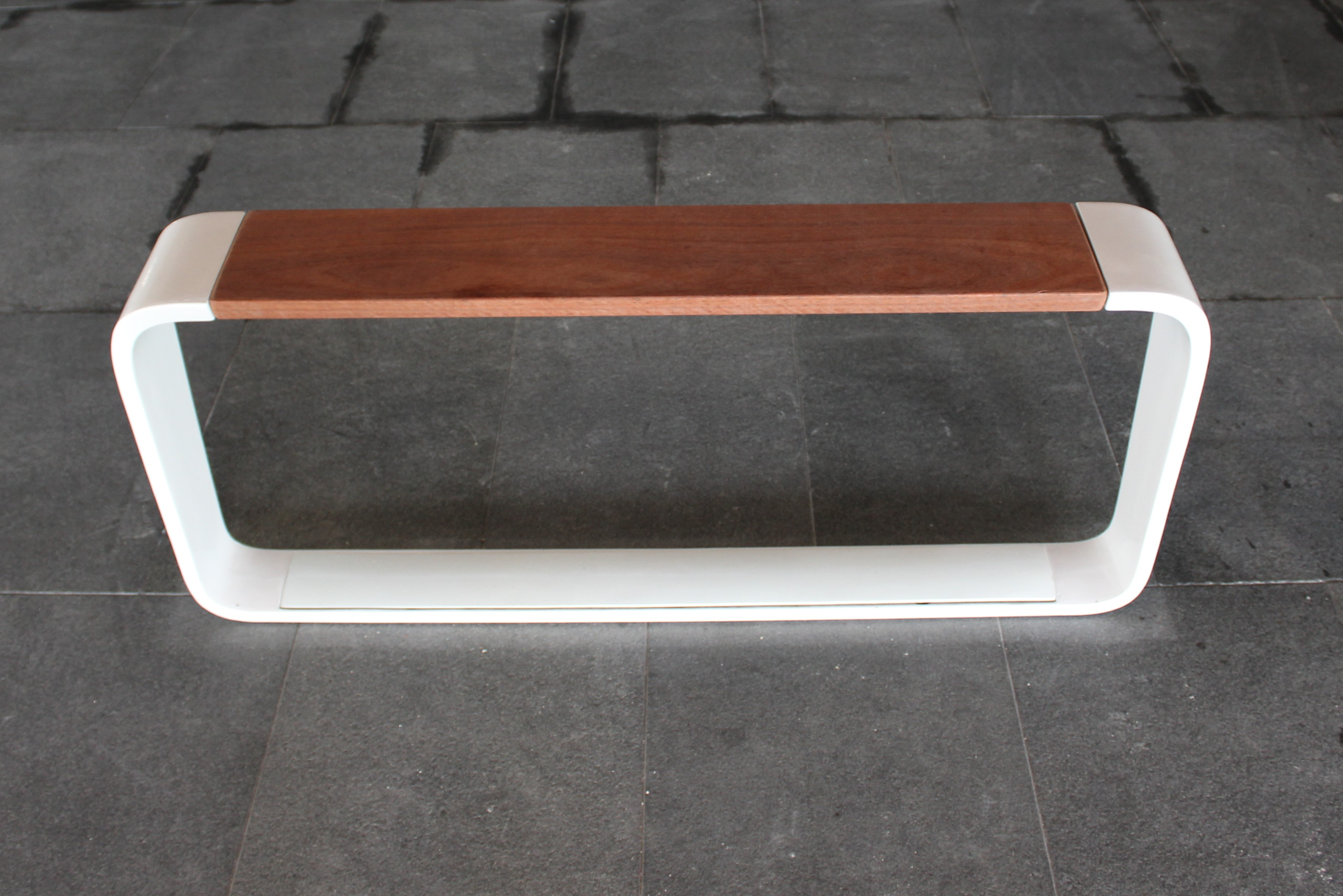 Neo-futurist bench with woodgrain at Eighth Street station Metromover in Miami.